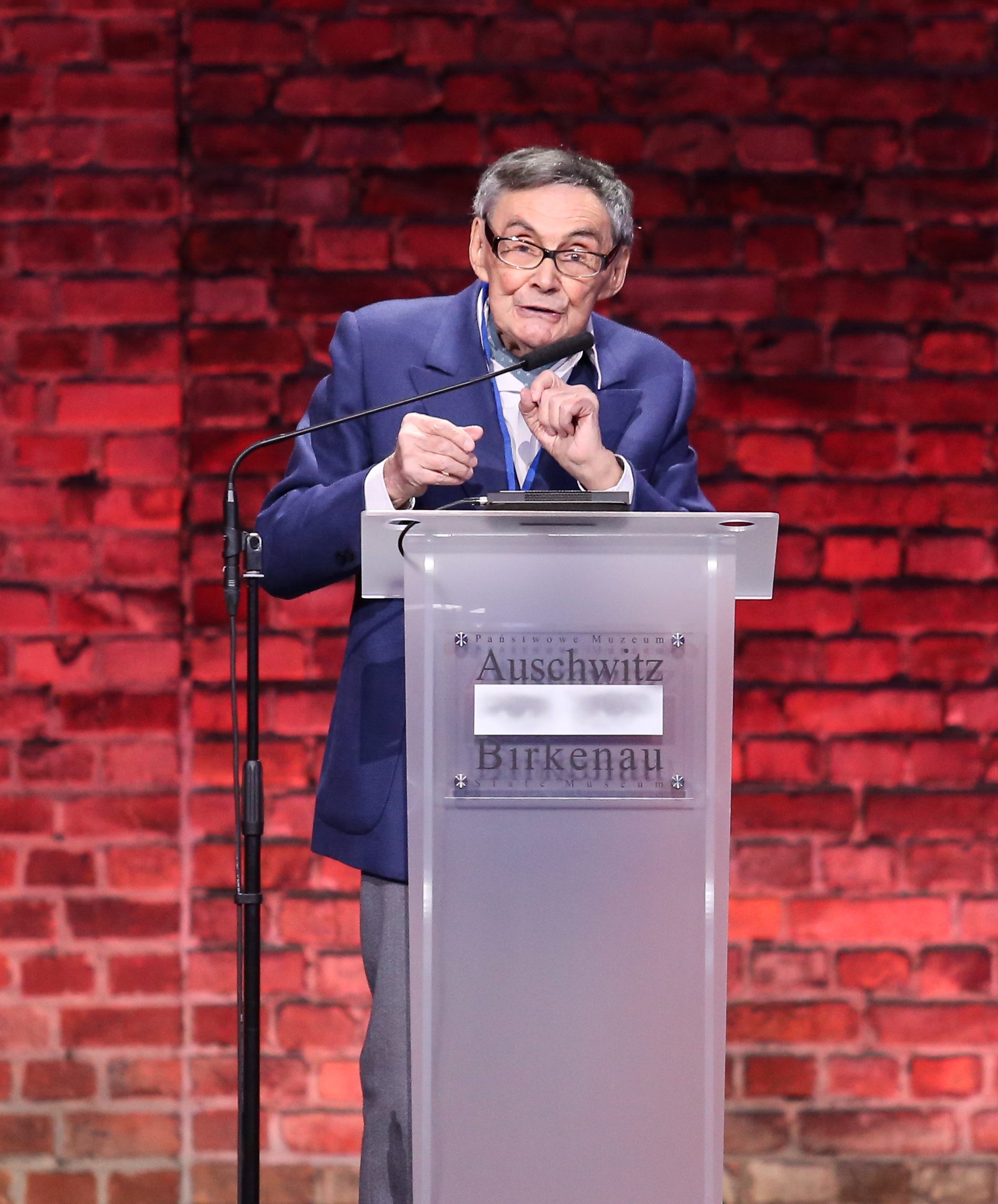 Auschwitz Survivor Marian Turski at the 75th anniversary of the liberation of Auschwitz on January 27, 2020